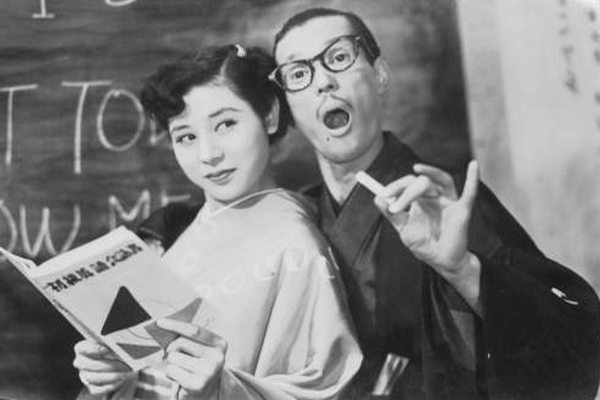 Yoshiko Hirose and Tony Tani in Tokai no yokogao (都会の横顔) directed by Hiroshi Shimizu - 1953